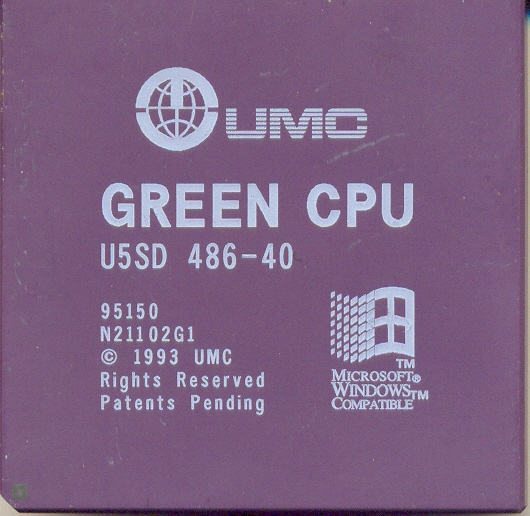 UMC ‘Green CPU’ U5SD 486-40. Produced in 1993. Label on the other side: Not for U.S. sale (this CPU does violate some of Intel's patents and was therefore not sold in the USA)